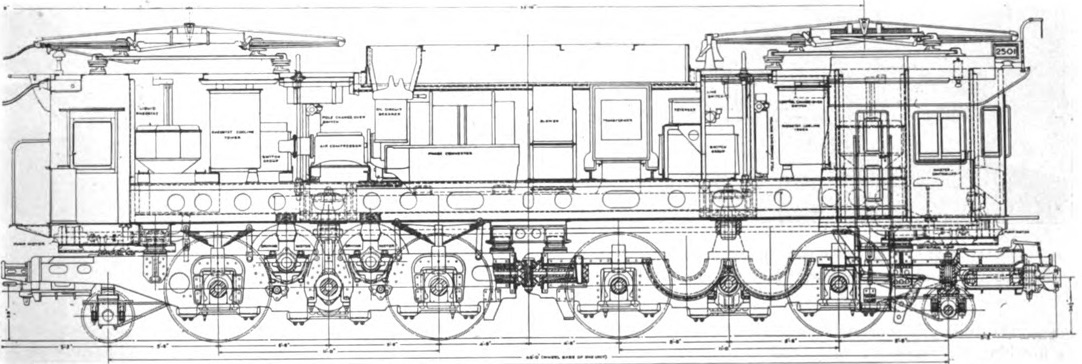 Line drawing of the N&W LC-1 electric locomotive.